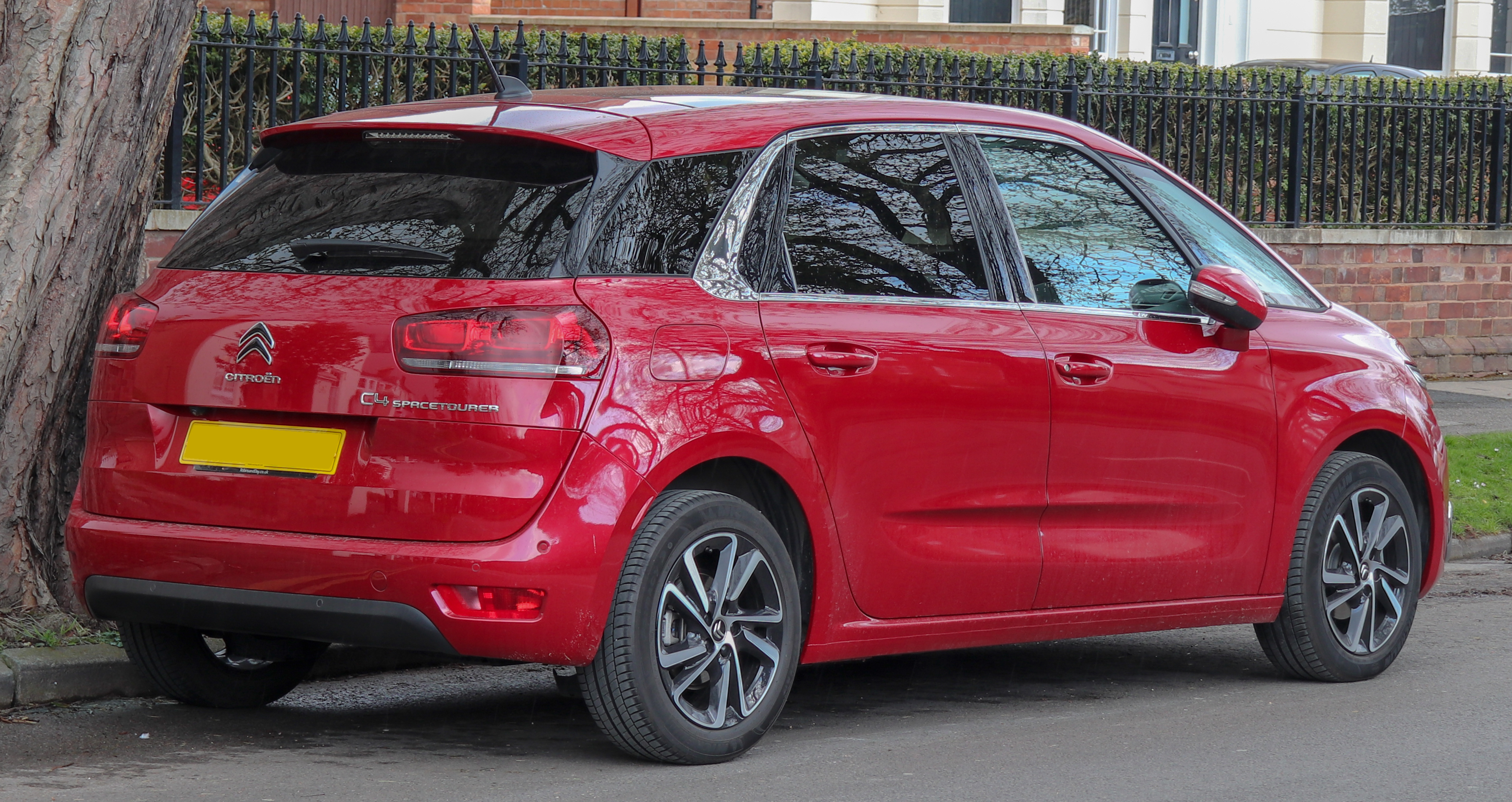 2018 Citroen C4 Spacetourer Flair BlueHDi 1.6 Rear Taken in Leamington Spa